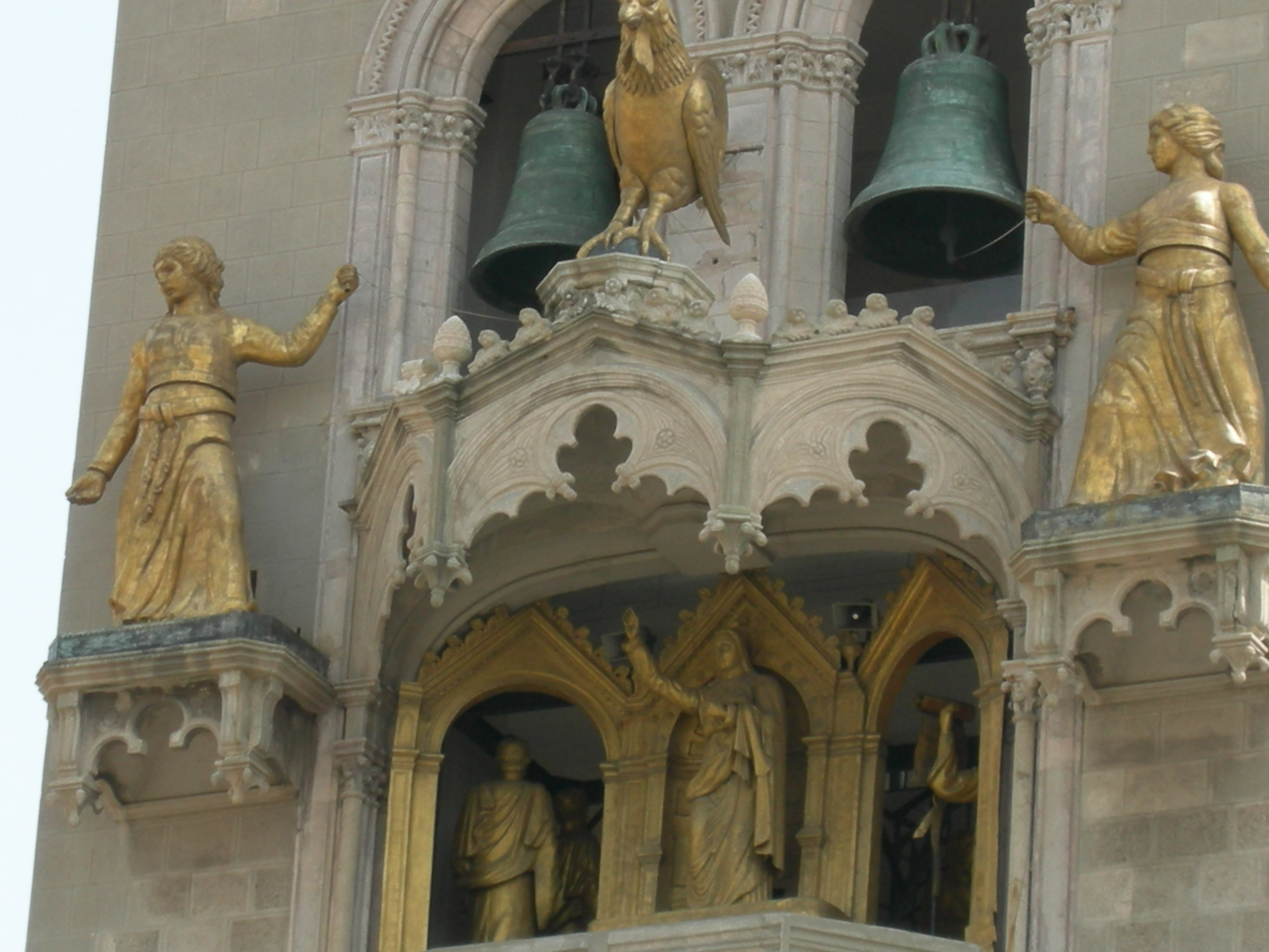 Details of the church tower of the Duomo of Messina